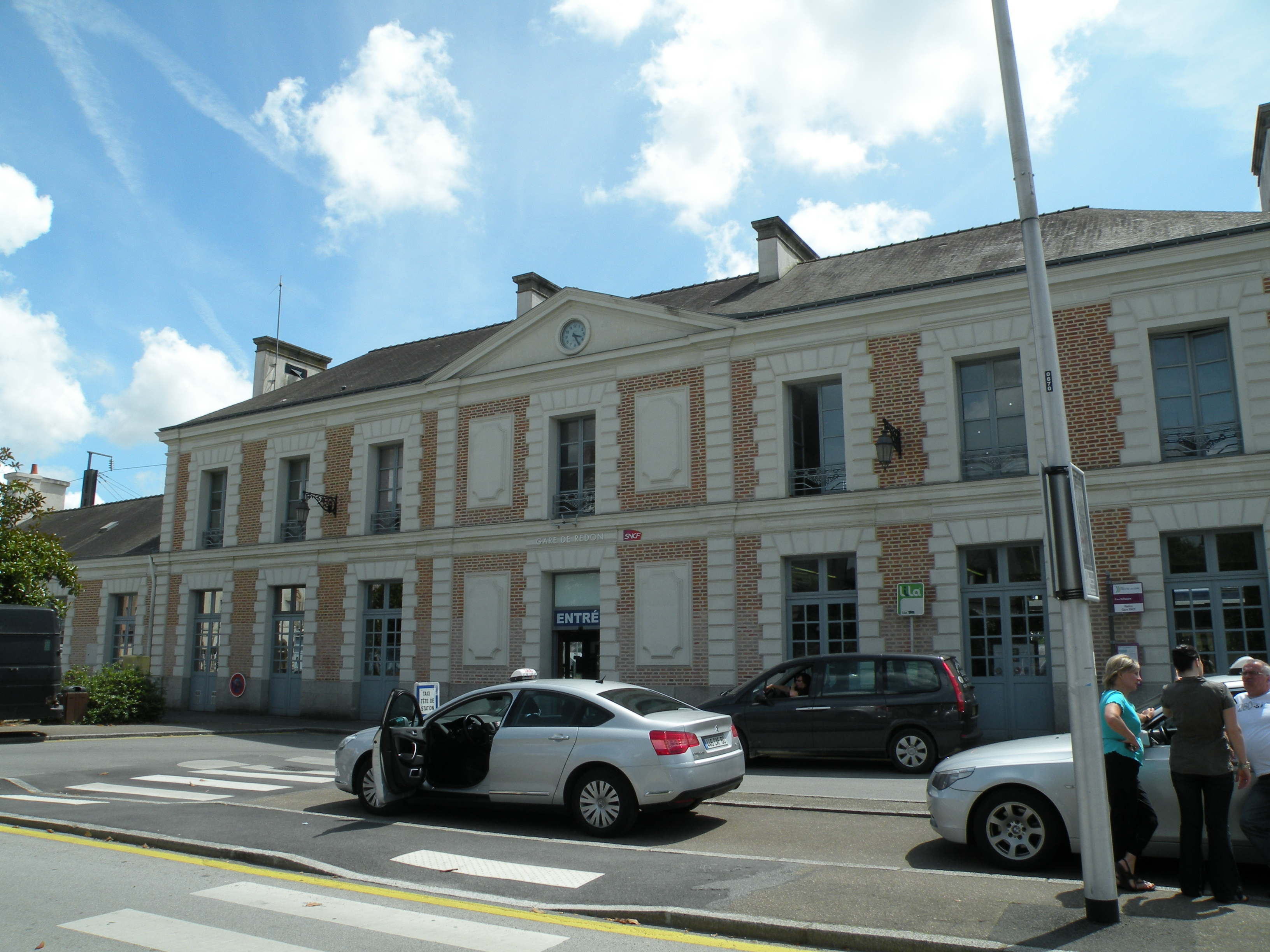 The railway station of Redon.